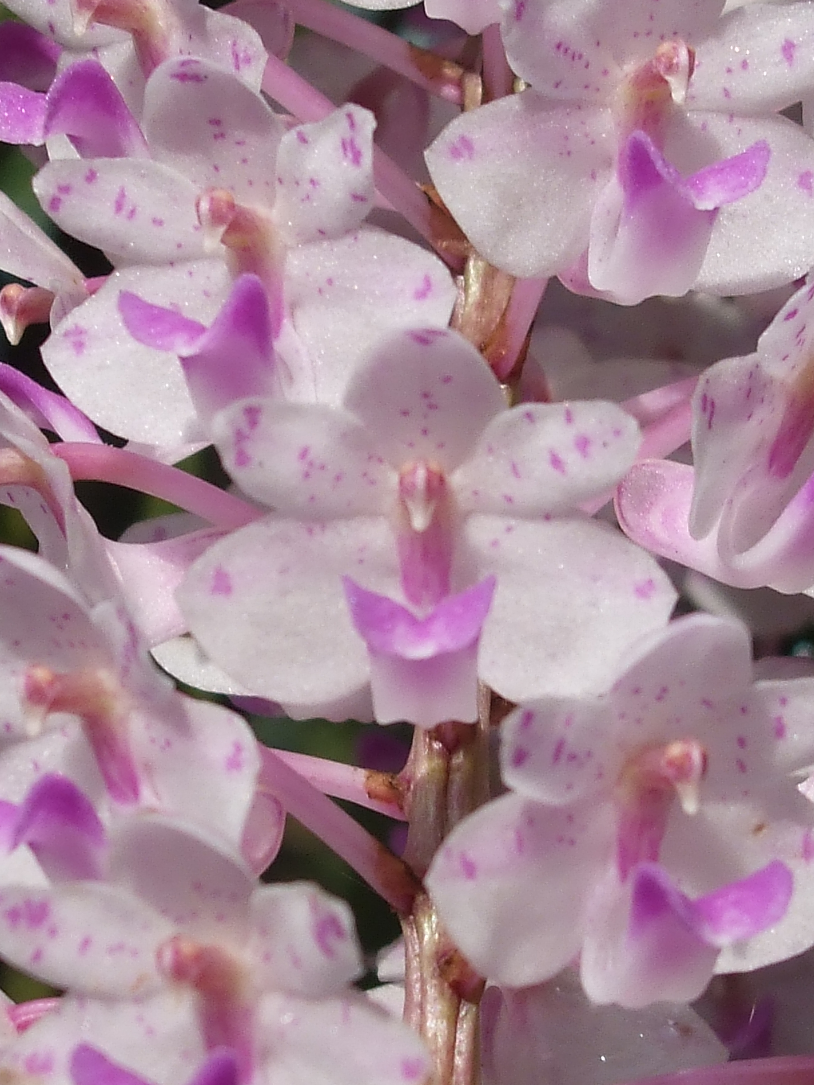 foxtail orchid infloresence closeup